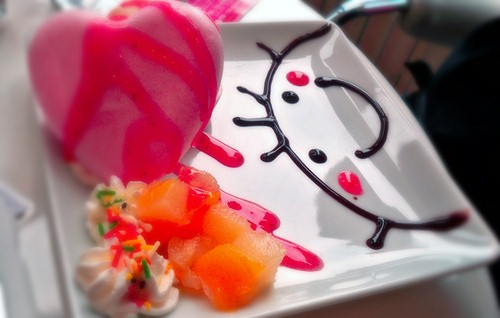 A picture of food I took at a Maid Cafe.